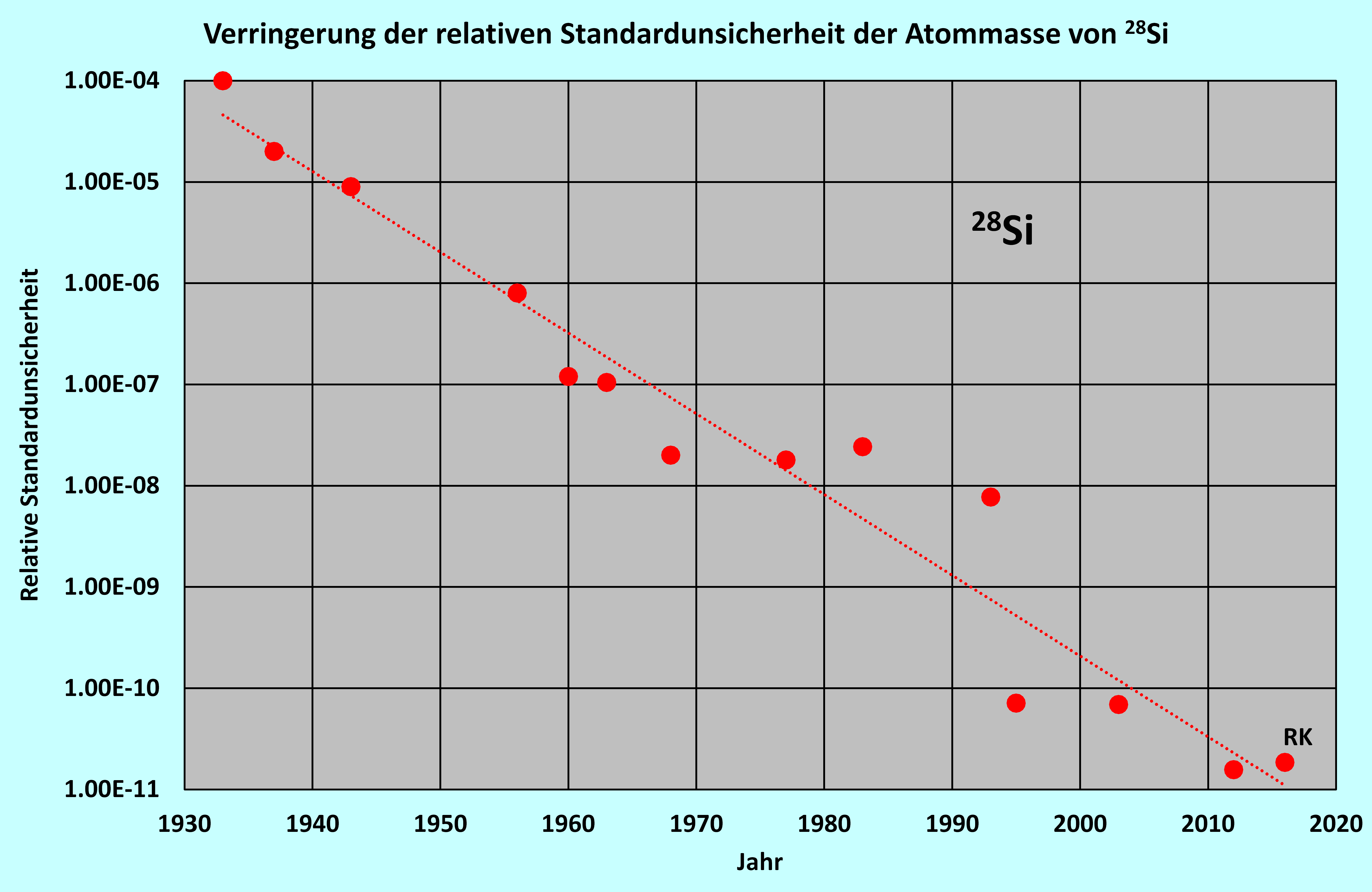 Reduction of the relative standard uncertainty of the atomic mass of 28Si in the years from 1933 to 2016